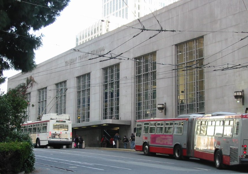 Photograph of the Transbay Terminal in San Francisco, CA